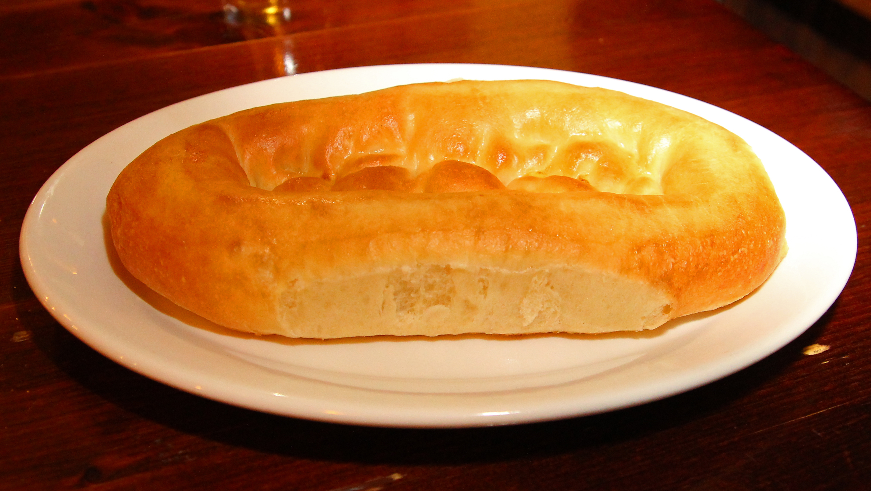 An originally Ossetian flatbread named churek